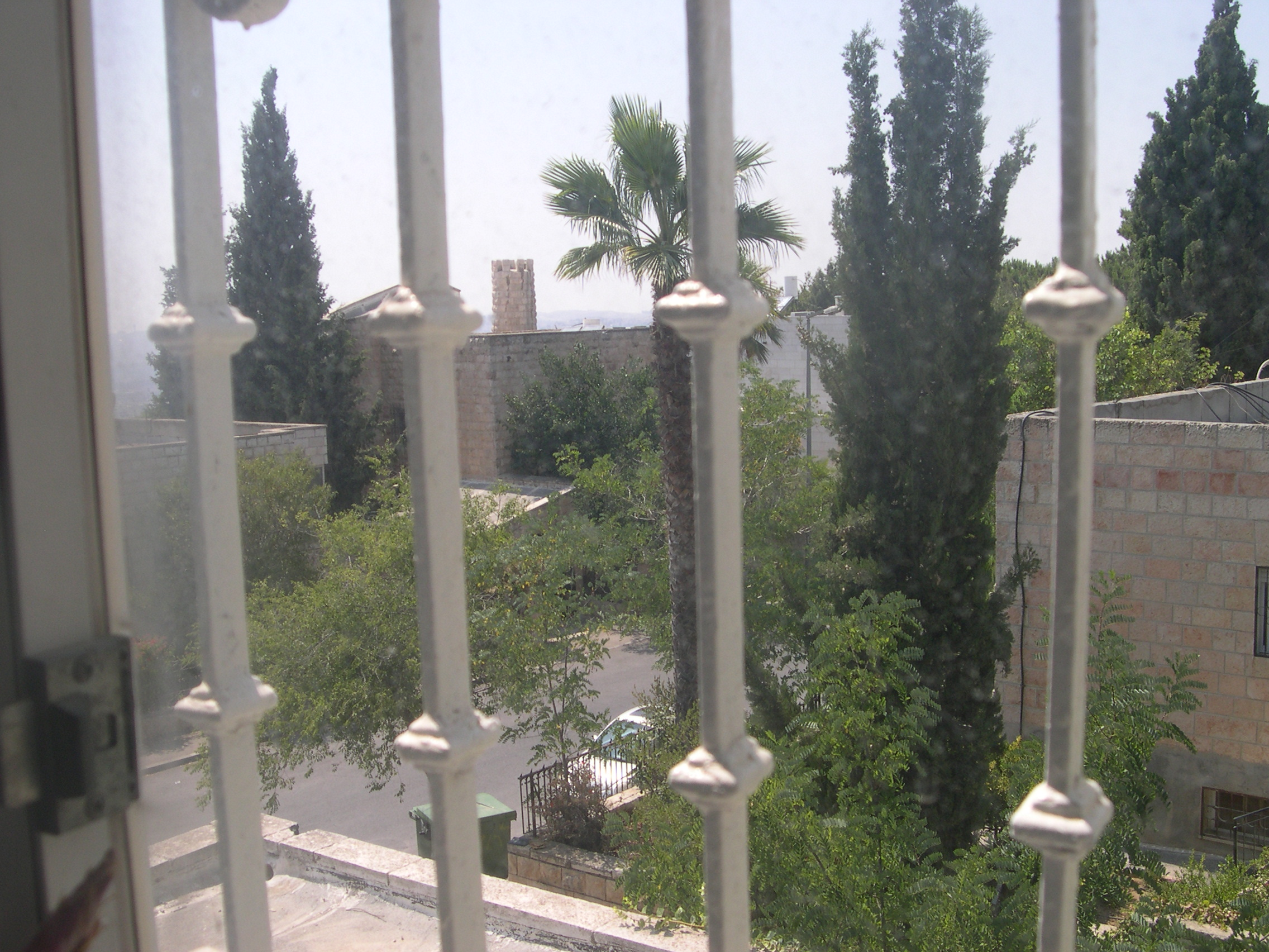 View from a window of a street in Giv'at HaMivtar Jerusalem